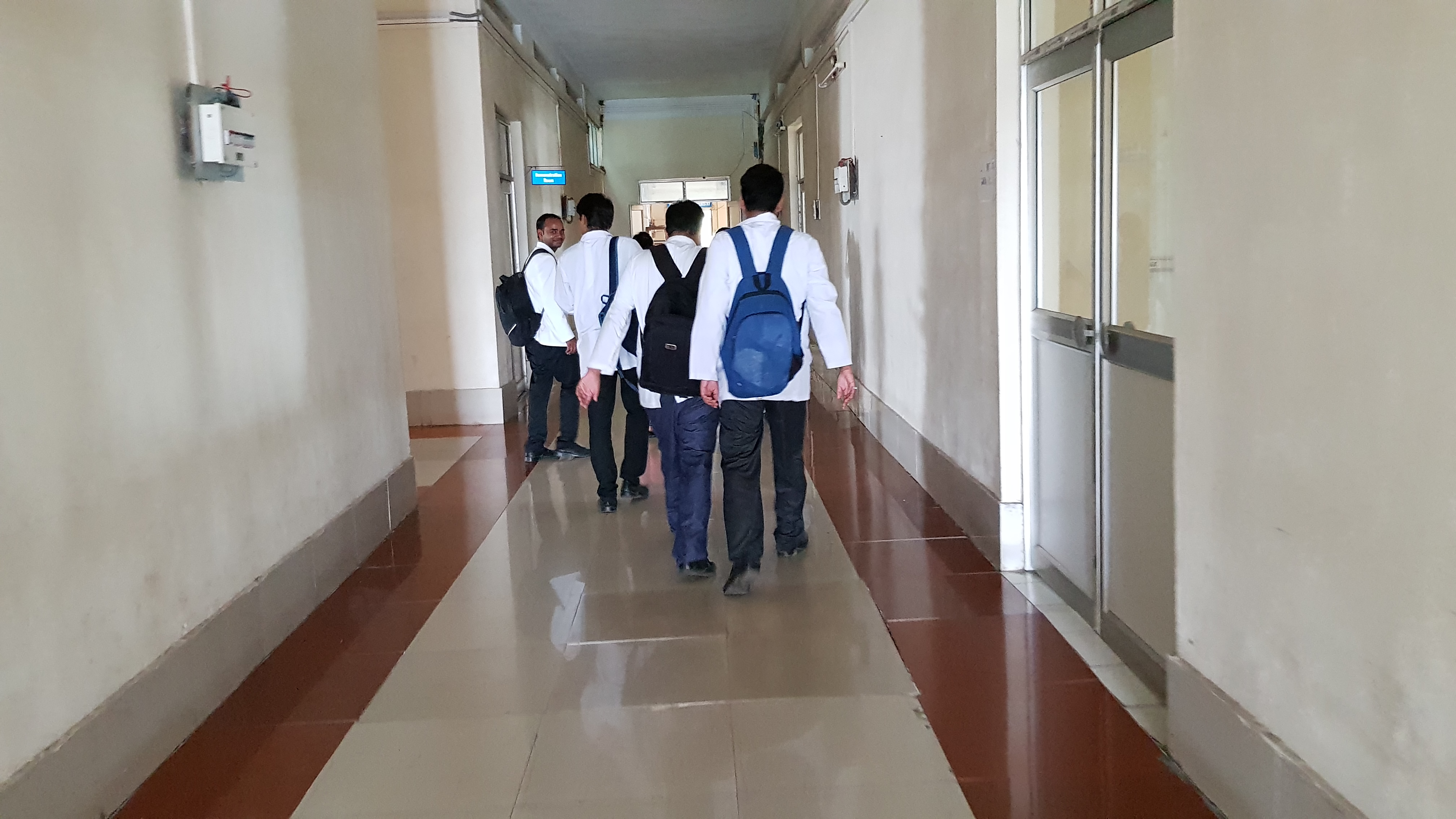 after coming out of class